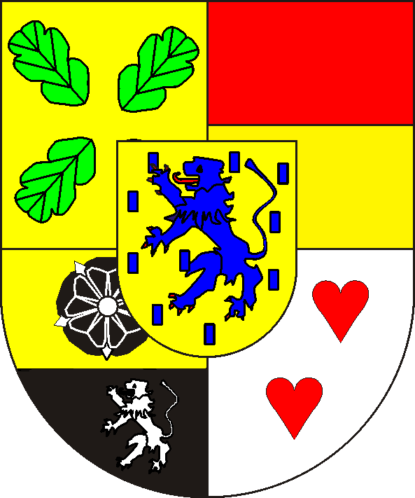 coats of arms of Solms-Lich-Hohensolms; 1: lordship of Greifenstein; 2: lordship of Münzenberg; 3a: lordship of Wildenfels; 3b: lordship of Sonnenwalde; 4: county of Tecklenburg; heart: county of Solms